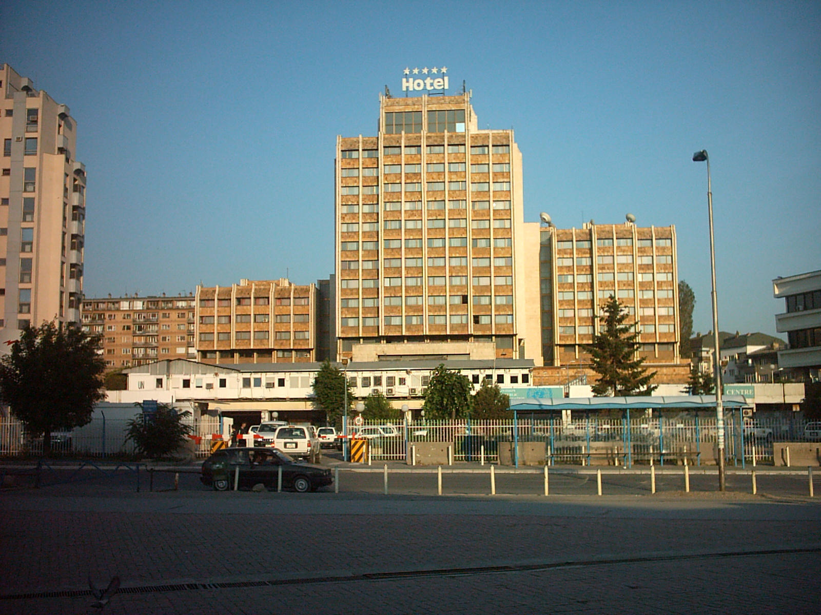 The Grand Hotel Prishtina in Kosovo.